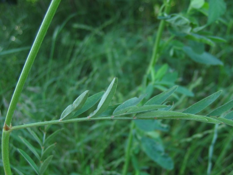 Saat-Esparsette Onobrychis viciifolia, Zingst